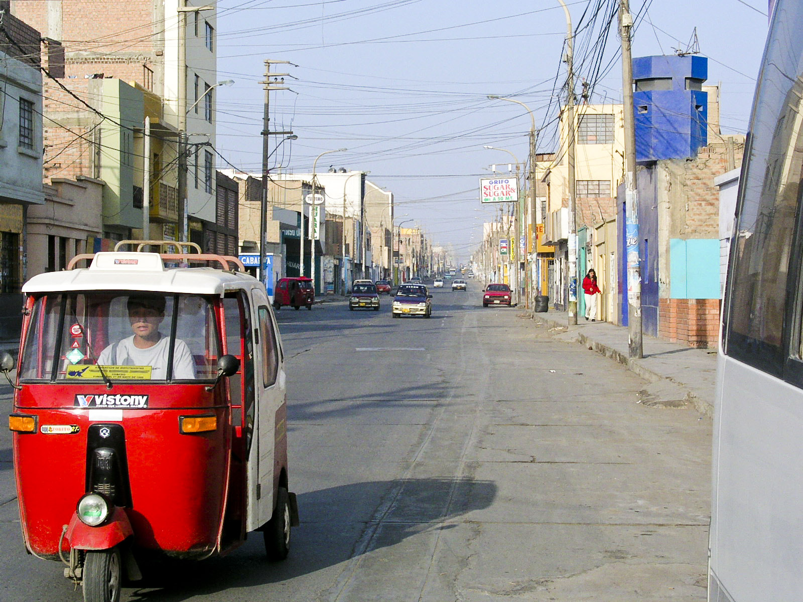 Huacho, Provincia de Huaura, Región de Lima, Peru. Street view.